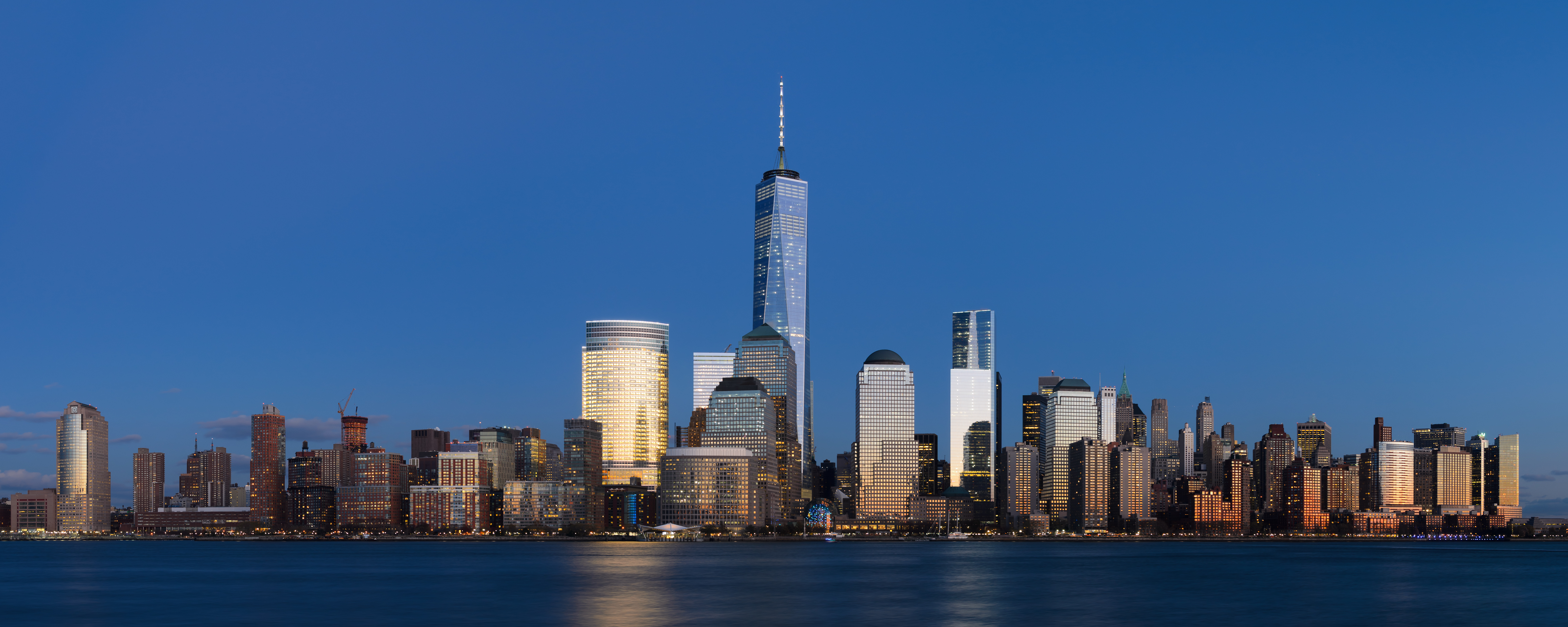 Four-segment panorama of Lower Manhattan, New York City, as viewed from Exchange Place, Jersey City, New Jersey.